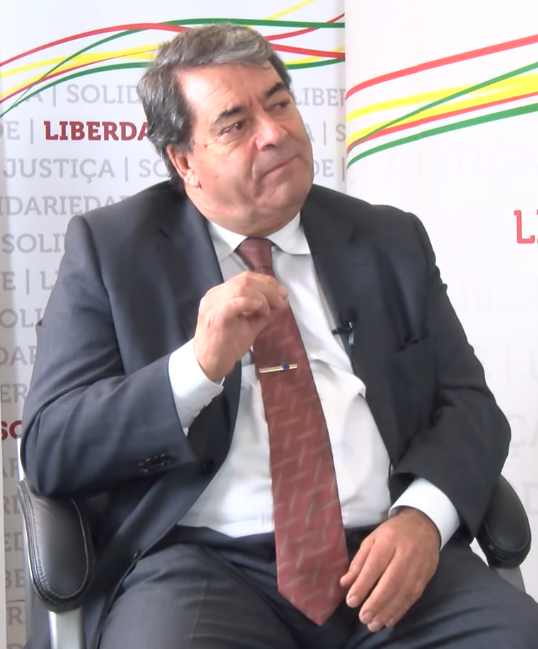 António Marinho e Pinto, Portuguese lawyer and politician